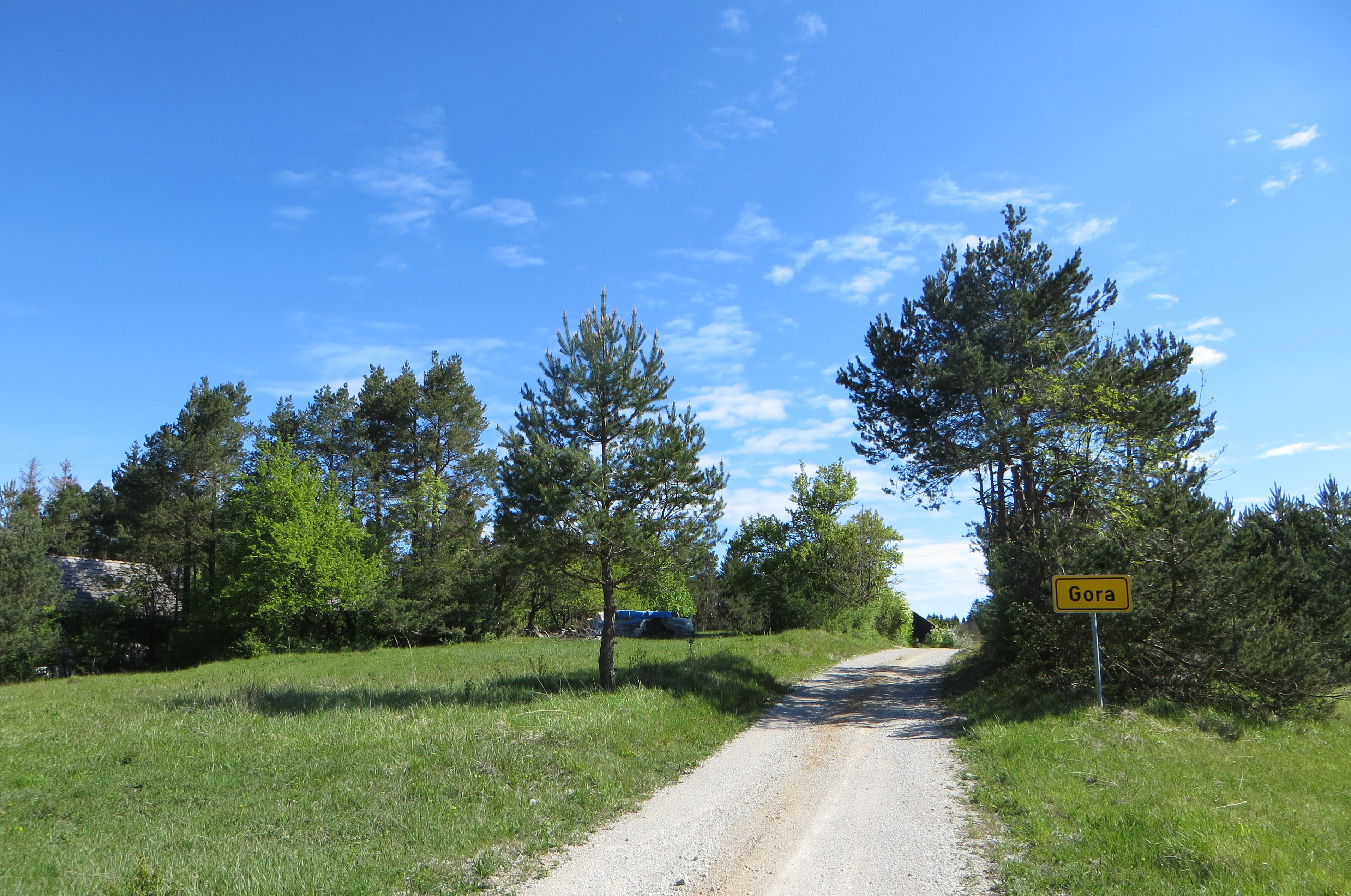 Gora, Municipality of Cerknica, Slovenia